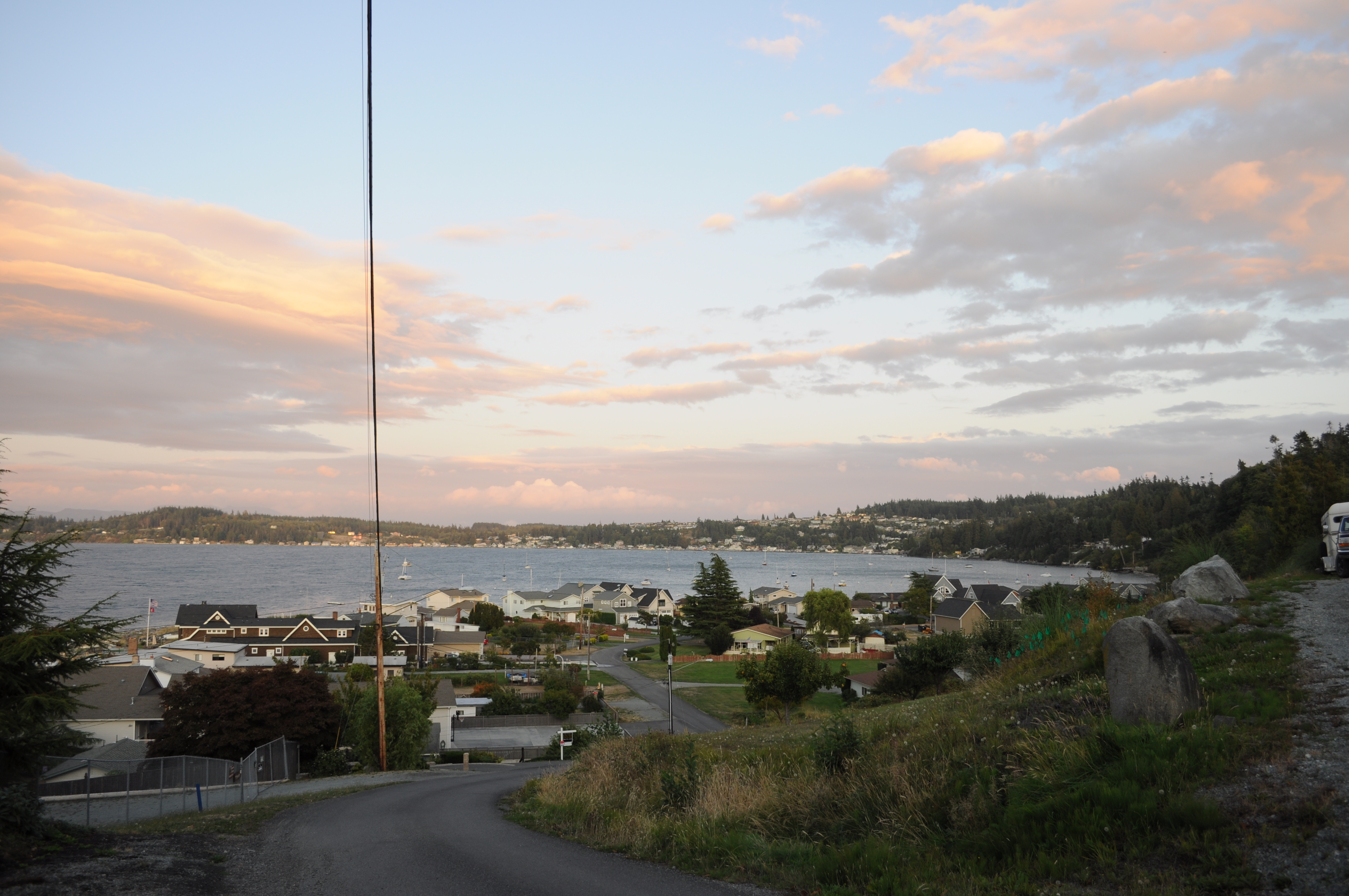 View of Utsalady, Washington, USA, on the north shore of Camano Island. Seen from the heights to the west on Utsalady Point.